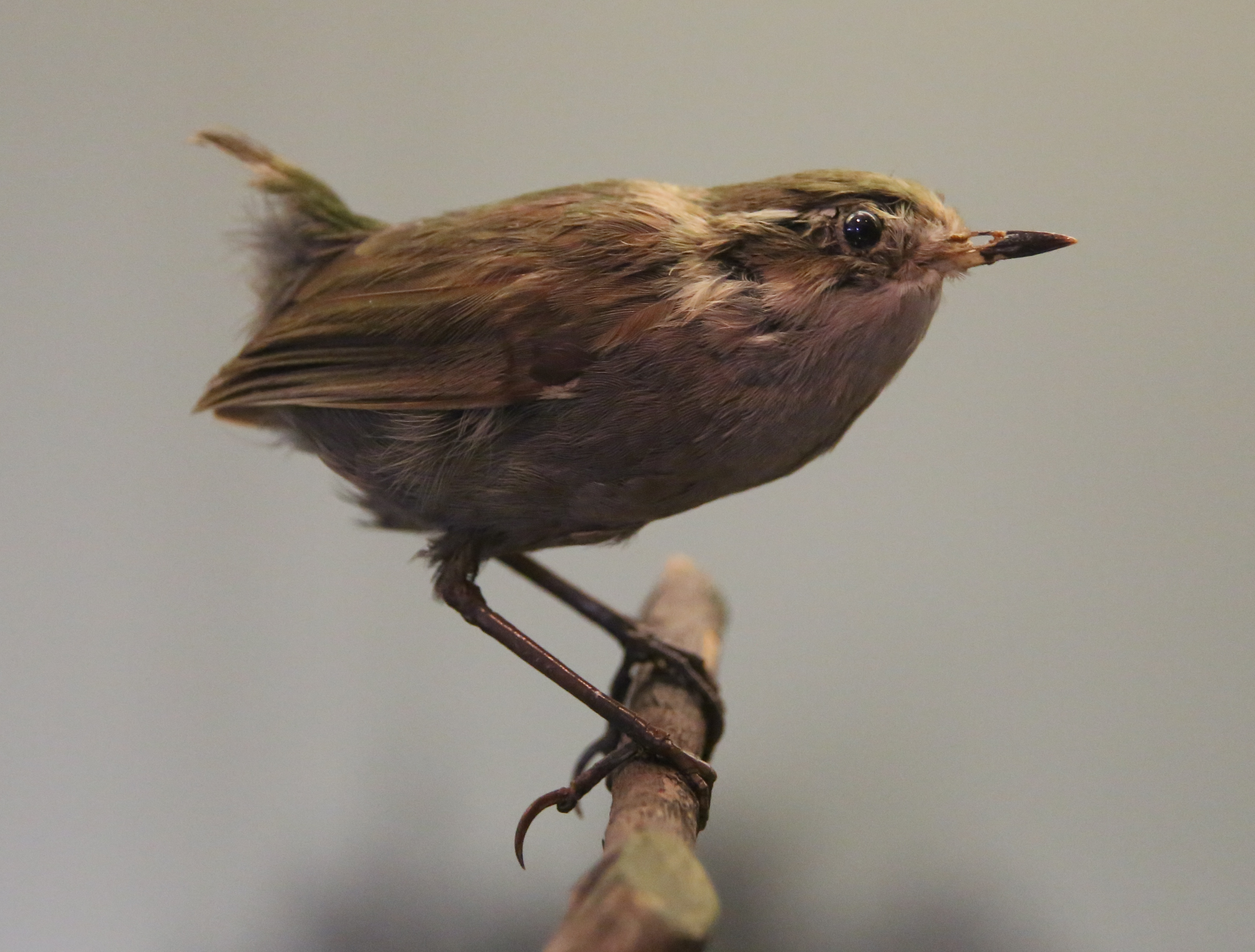 Photo of a Taxidermied Xenicus longipes (Bushwren)